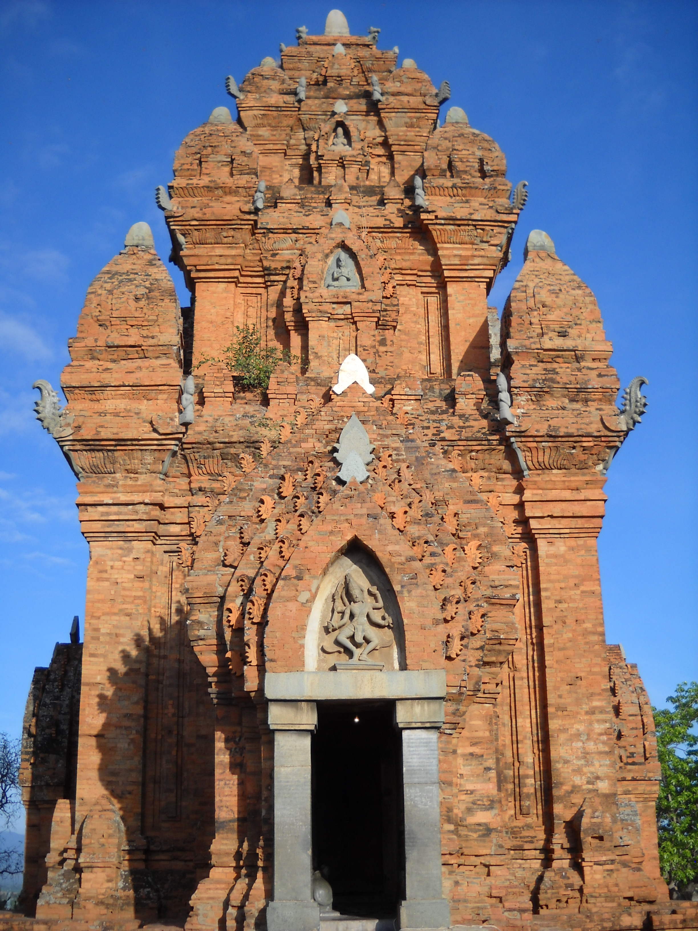 Cham tower Po Klaung Garai in Phan Rang-Thap Cham City, Binh Thuan Province, Vietnam